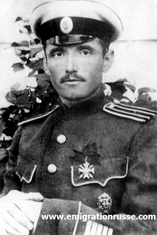 photo of the Russian white volunteer А.N. Bleish